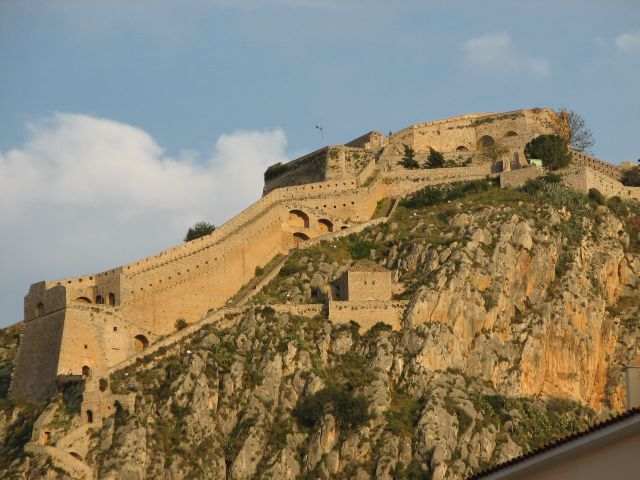 Palimidi Castle above Nafplion, Peleponnese. picture taken by (WT-shared) Thorsten.